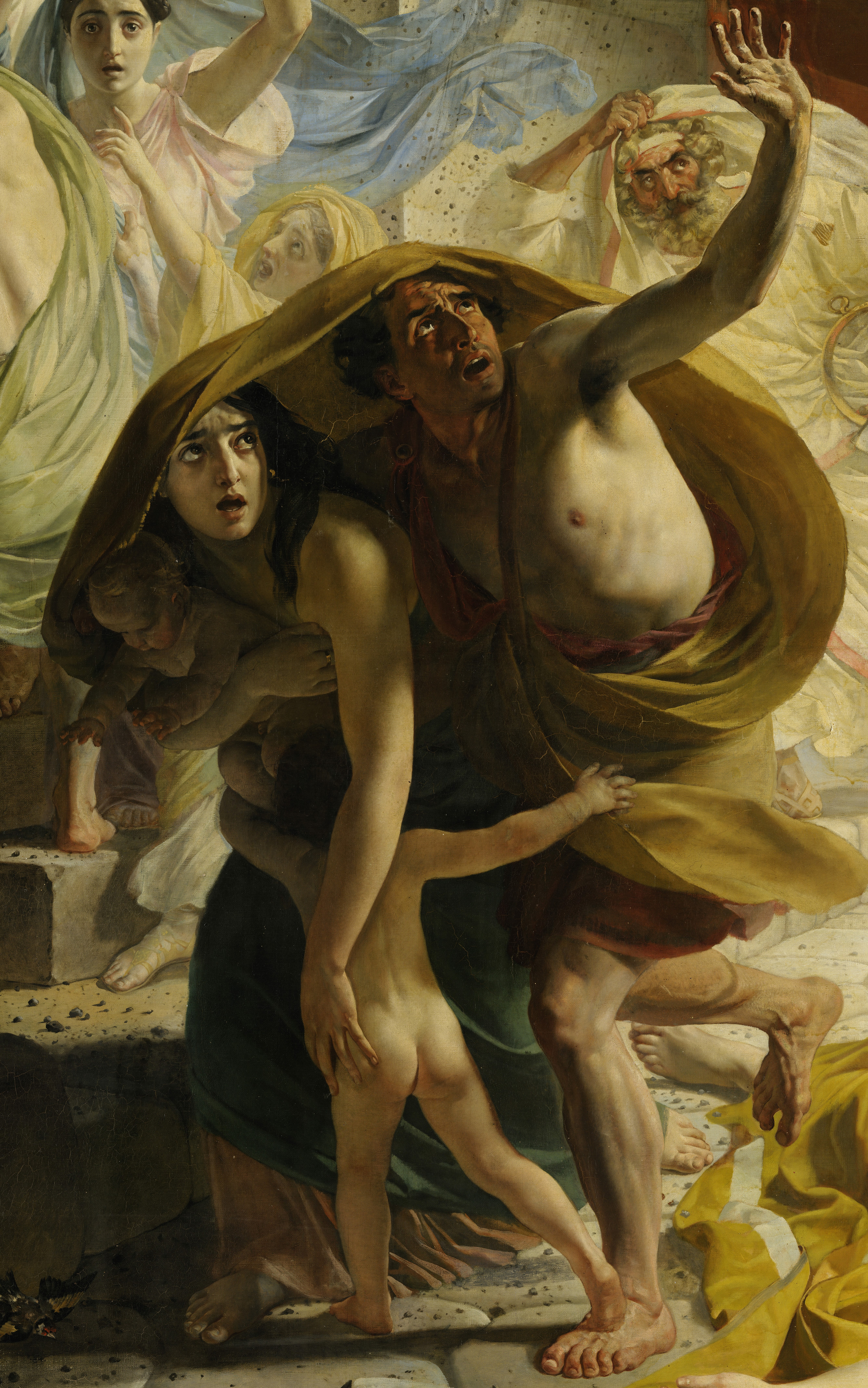 Detail of "The last day of Pompeii" (by Karl Bryullov, 1833, Russian Museum)